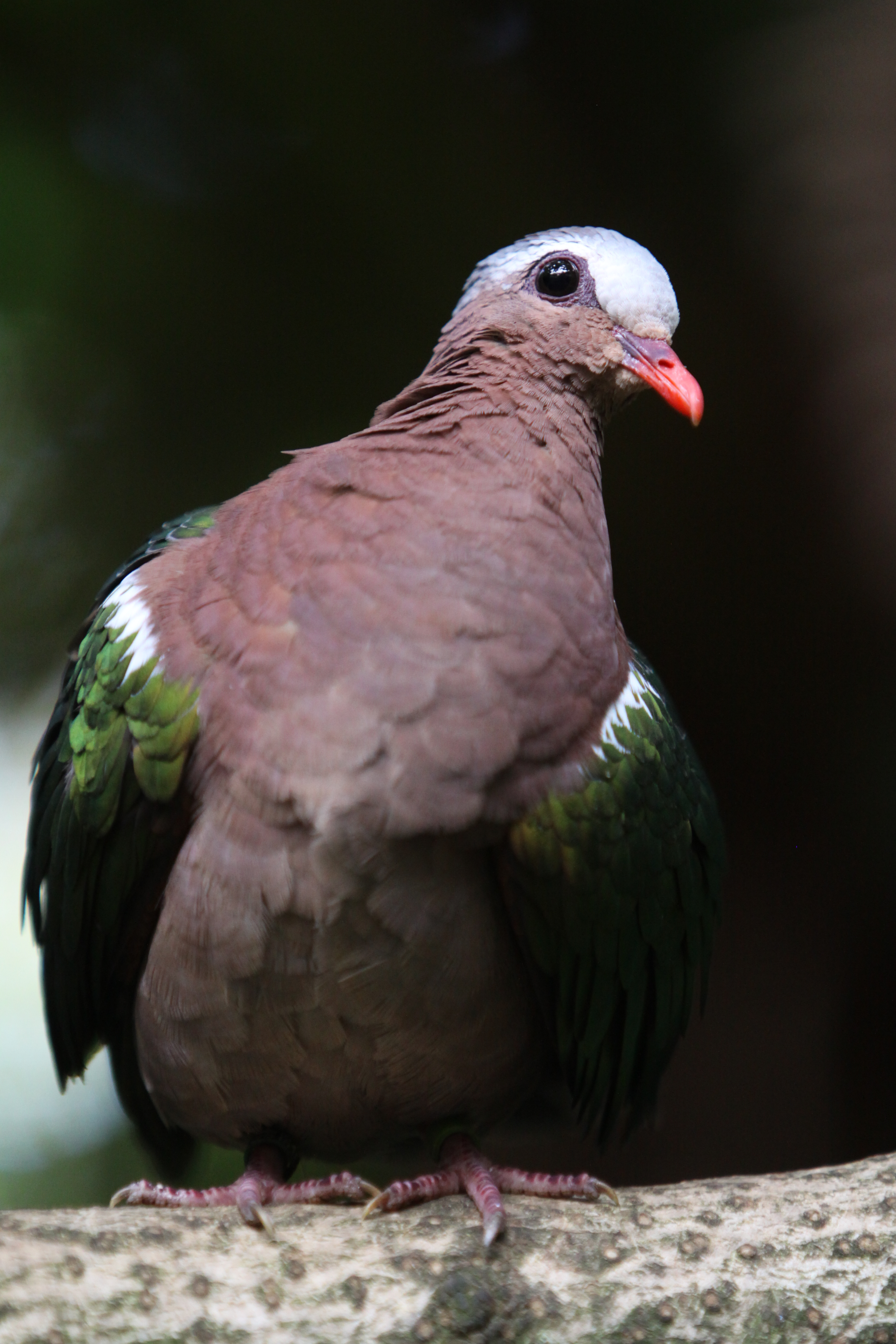 common emerald dove (Chalcophaps indica) at Durrell Wildlife Park